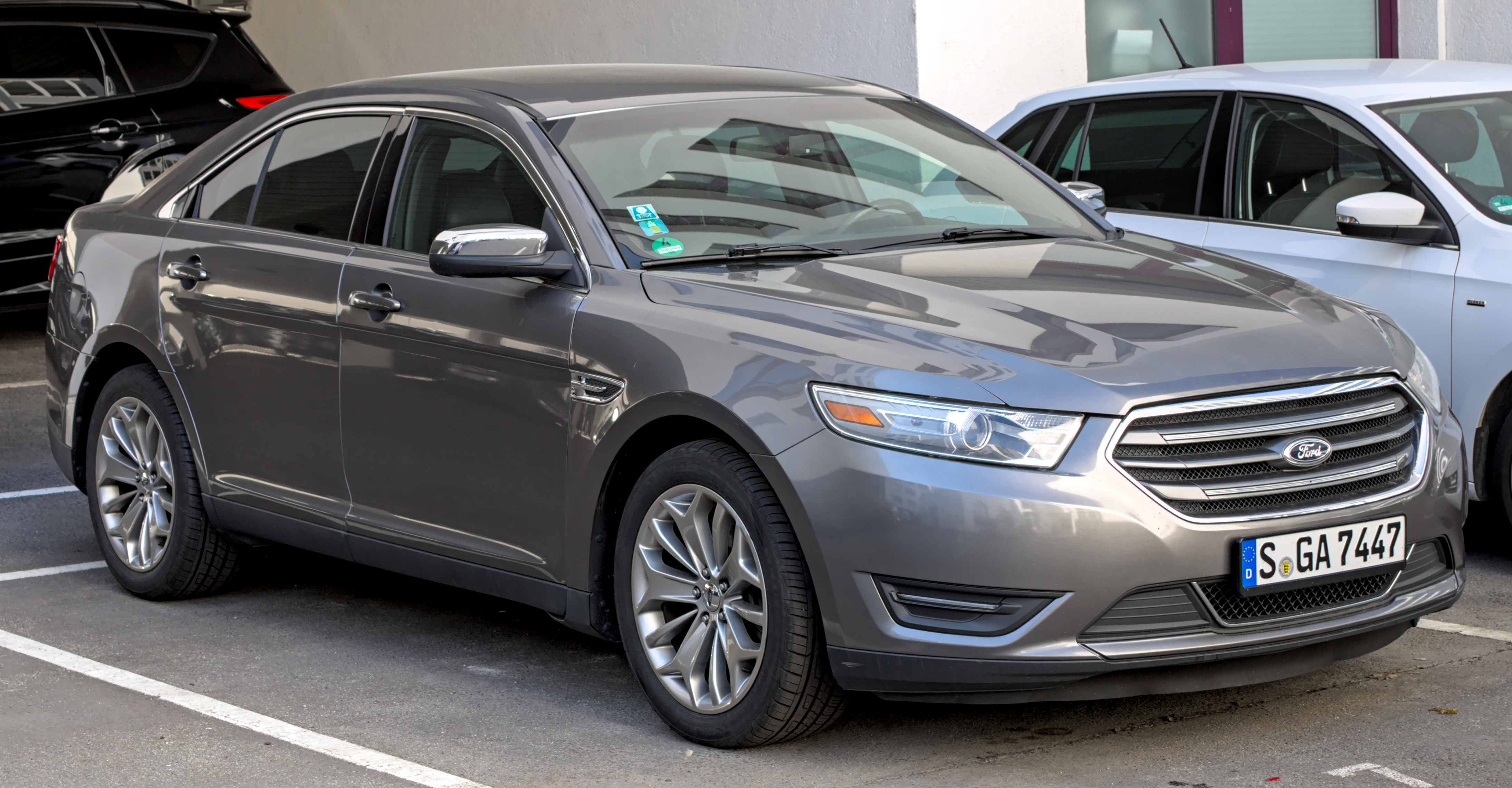 Ford_Taurus_(2013-2015) in Stuttgart-Vaihingen